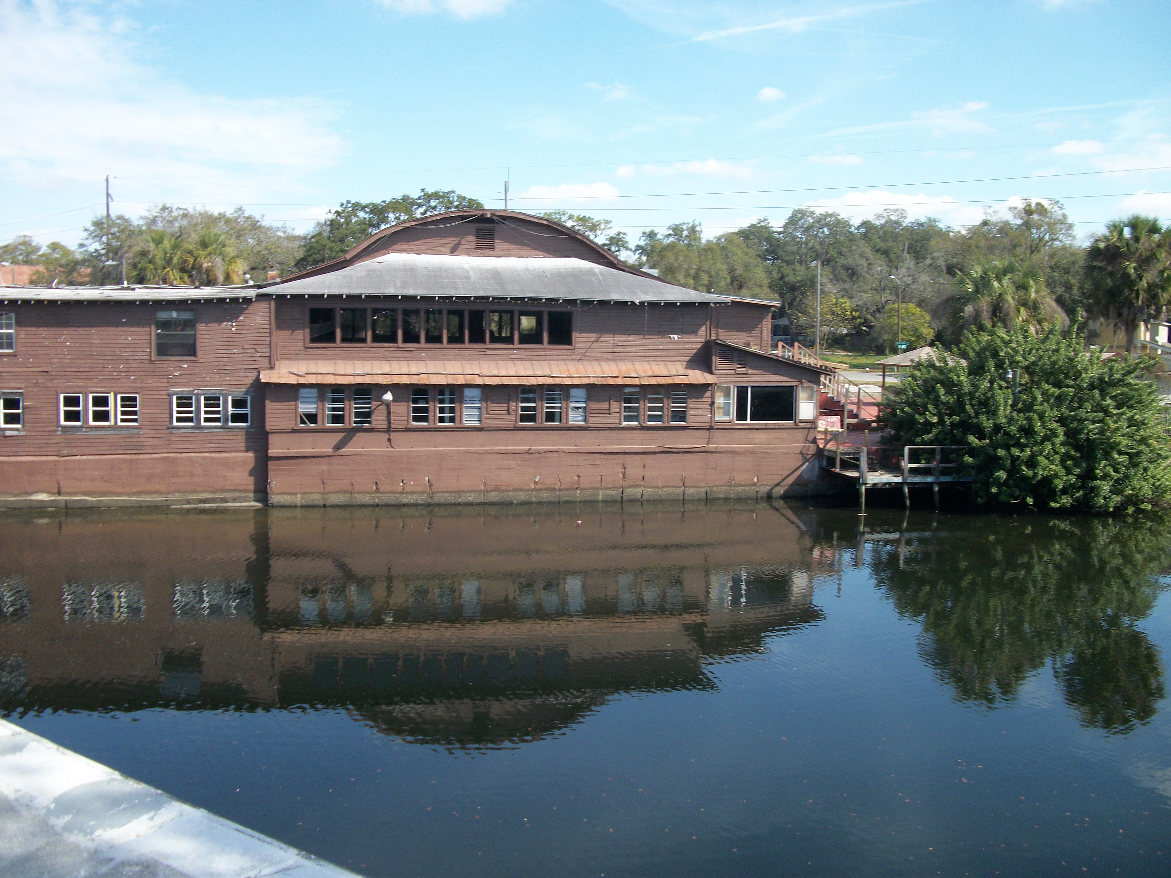 An unknown building, possibly a former night club, on the Sulphur Springs side of the Hillsborough River in Tampa, Florida, as seen from the Nebraska Avenue Bridge.